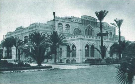 The former Royal Miramare Theater, 'Real Teatro Miramare' , on the corner of Green Square and the Corniche in central Tripoli, Libya. It was an large ornate building built during the colonial Italian Libya era, and demolished some years after independence.